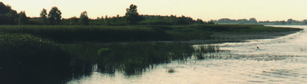 the islet Pagensand in the Elbe, view from the side branch Pagensander Nebenelbe (the inlet by the NABU shack)